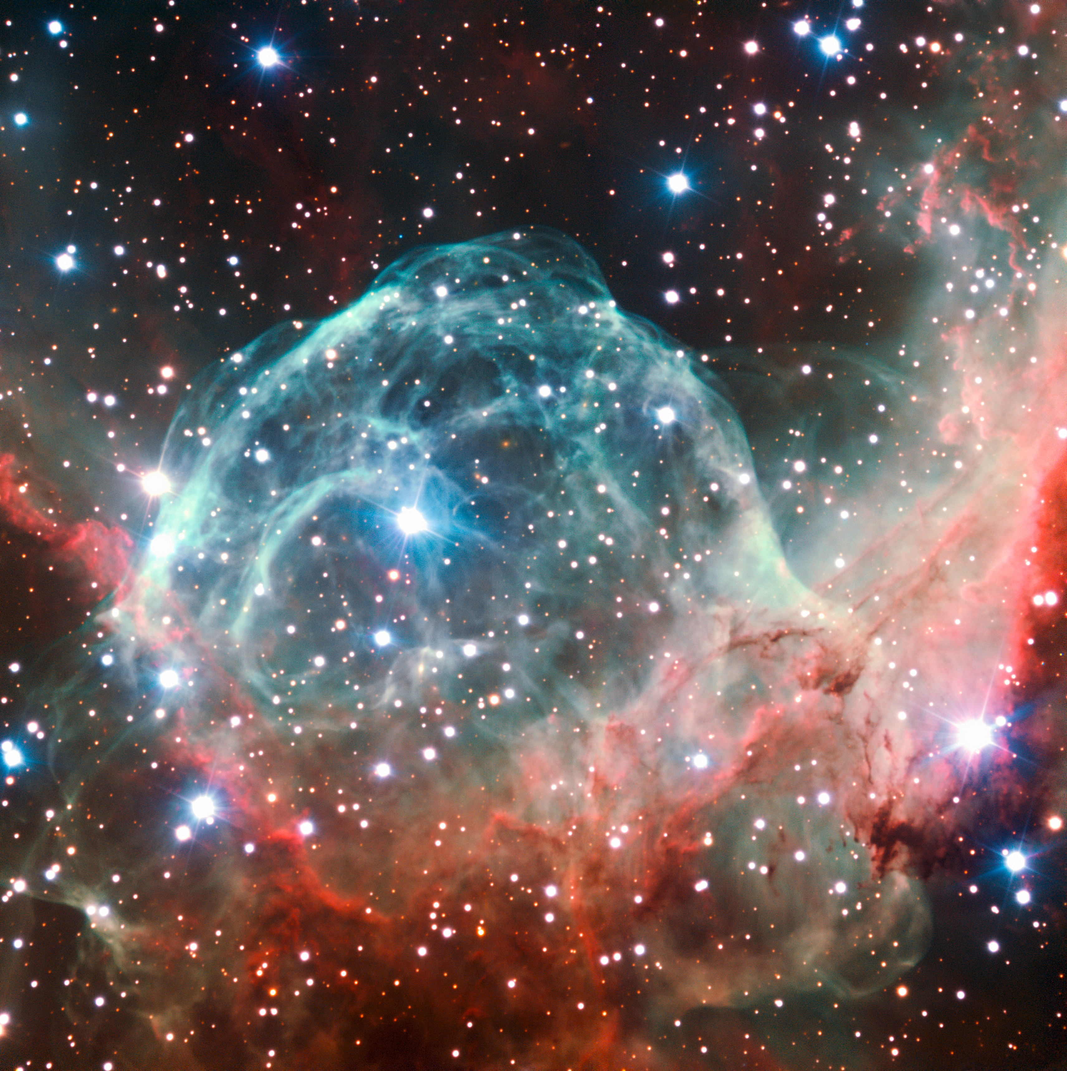 This VLT image of the Thor’s Helmet Nebula was taken on the occasion of ESO’s 50th Anniversary, 5 October 2012, with the help of Brigitte Bailleul — winner of the Tweet Your Way to the VLT! competition. The observations were broadcast live over the internet from the Paranal Observatory in Chile. This object, also known as NGC 2359, lies in the constellation of Canis Major (The Great Dog). The helmet-shaped nebula is around 15 000 light-years away from Earth and is over 30 light-years across. The helmet is a cosmic bubble, blown as the wind from the bright, massive star near the bubble's centre sweeps through the surrounding molecular cloud.